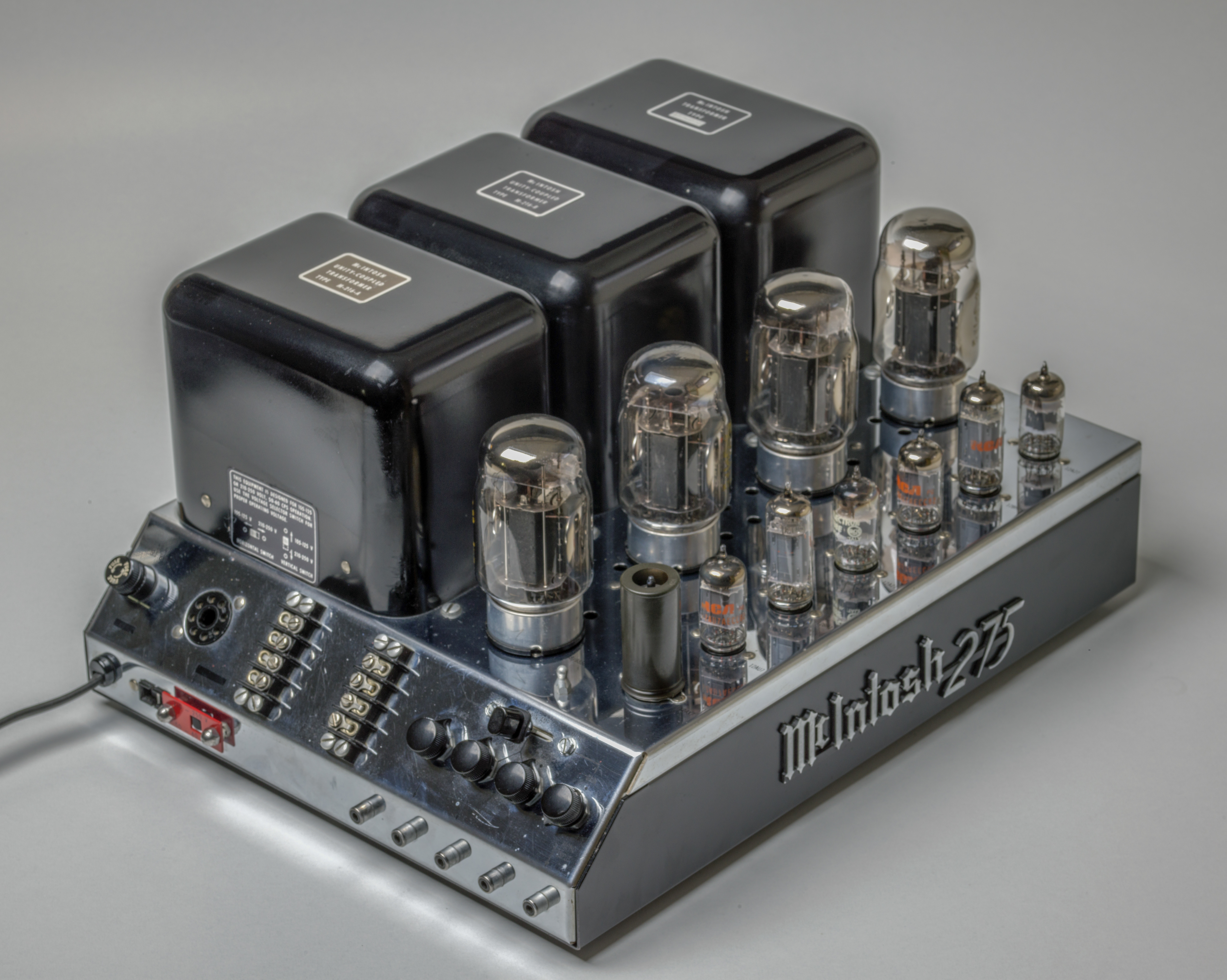 Amplifier MC275 - manufactured by McIntosh Laboratory in 1962 european version with 220V-110V switch (red) without tube cage